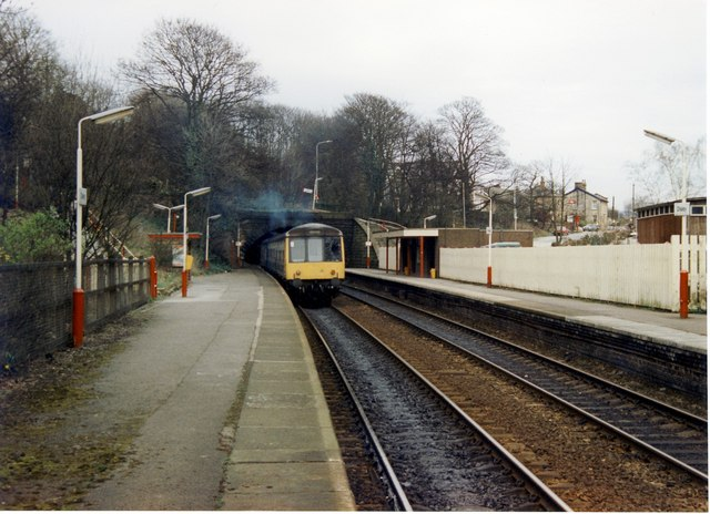 Disley railway station Original description: Disley station Manchester-Buxton train departing